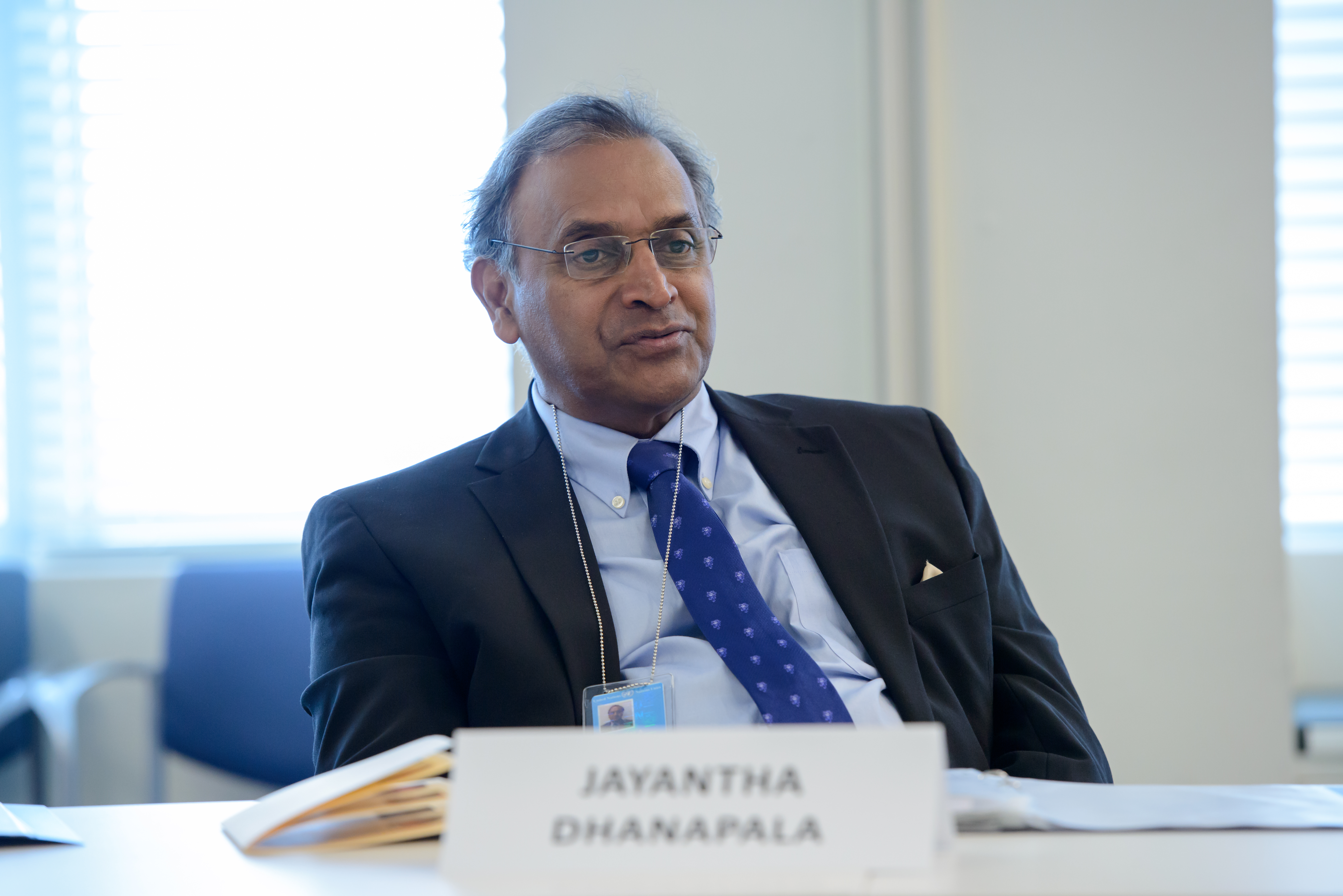 Jayantha Dhanapala, former UN Under-Secretary General for Disarmament Affairs and a member of the Group of Eminent Persons (GEM)